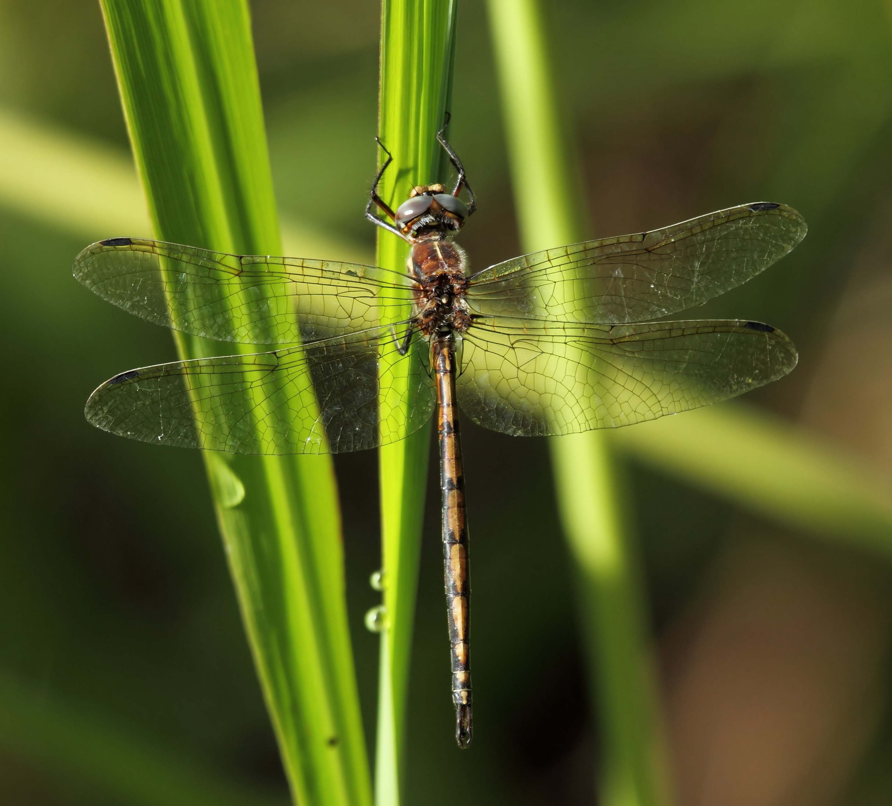 Yellow Presba male at Natures Valley, Western Cape, South Africa. A rare dragonfly - IUCN red list status Vulnerable.